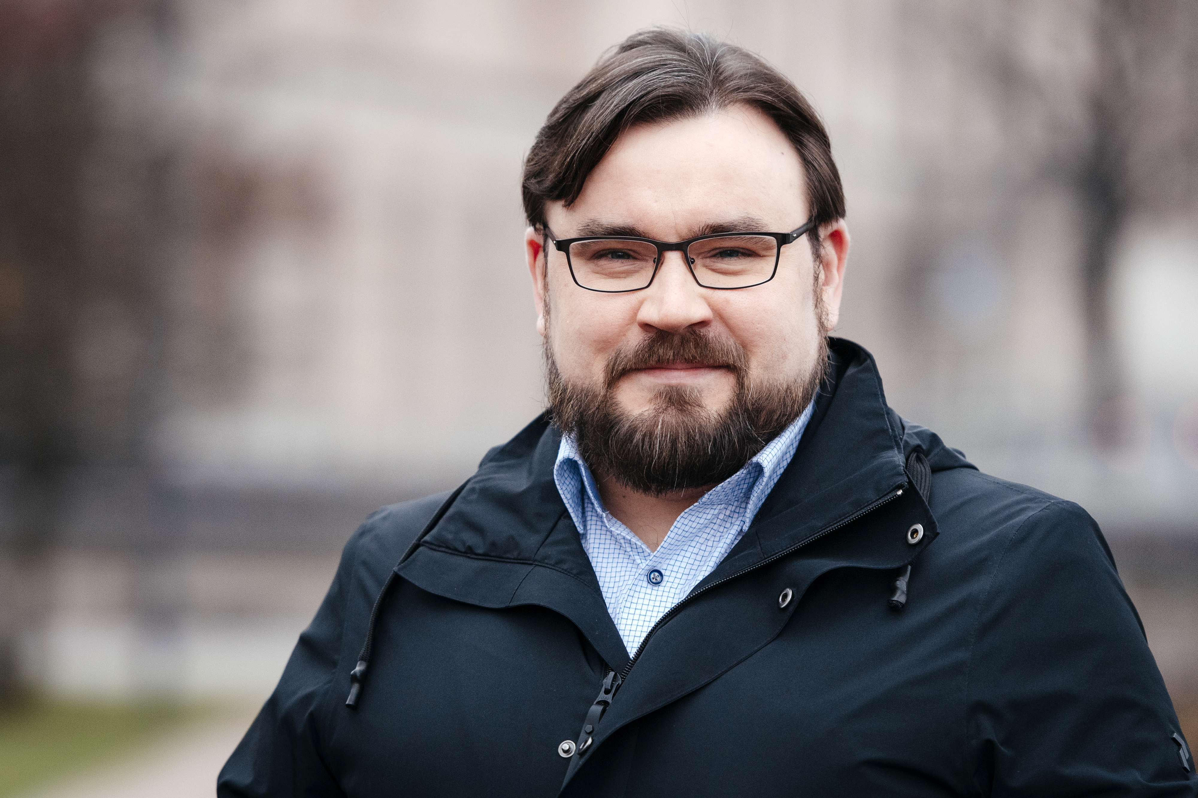 Johannes Yrttiaho, Member of Finnish Parliament